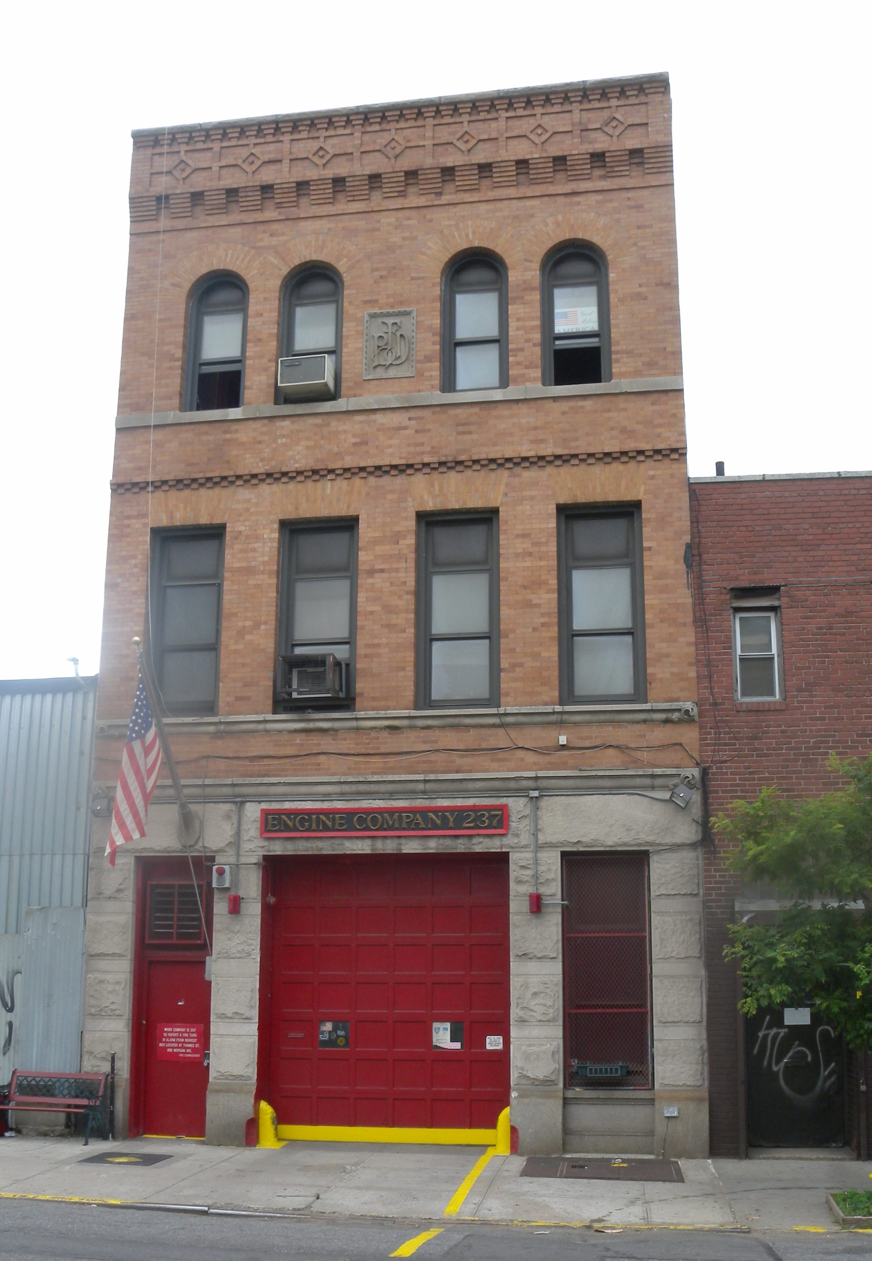 Looking west across Morgan Avenue at Engine 237 on a cloudy midday.